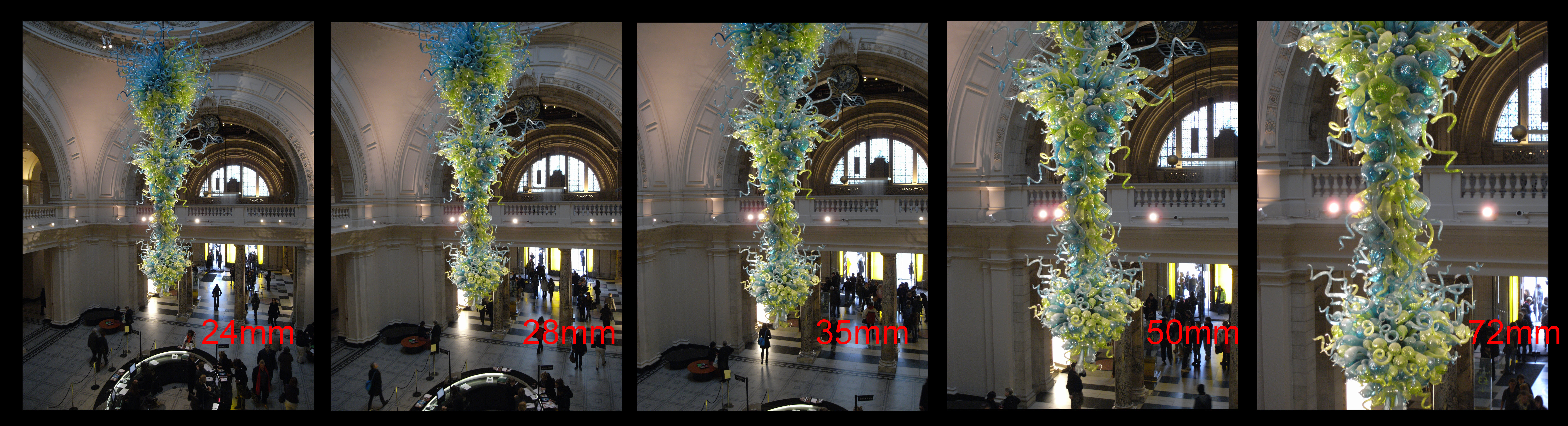 Series of 5 photos taken with Ricoh Caplio GX100 using the step zoom function, to show angle of view from 24 to 72mm equivalent focal length. The photos show the V&A Rotunda Chandelier by Dale Chihuly.